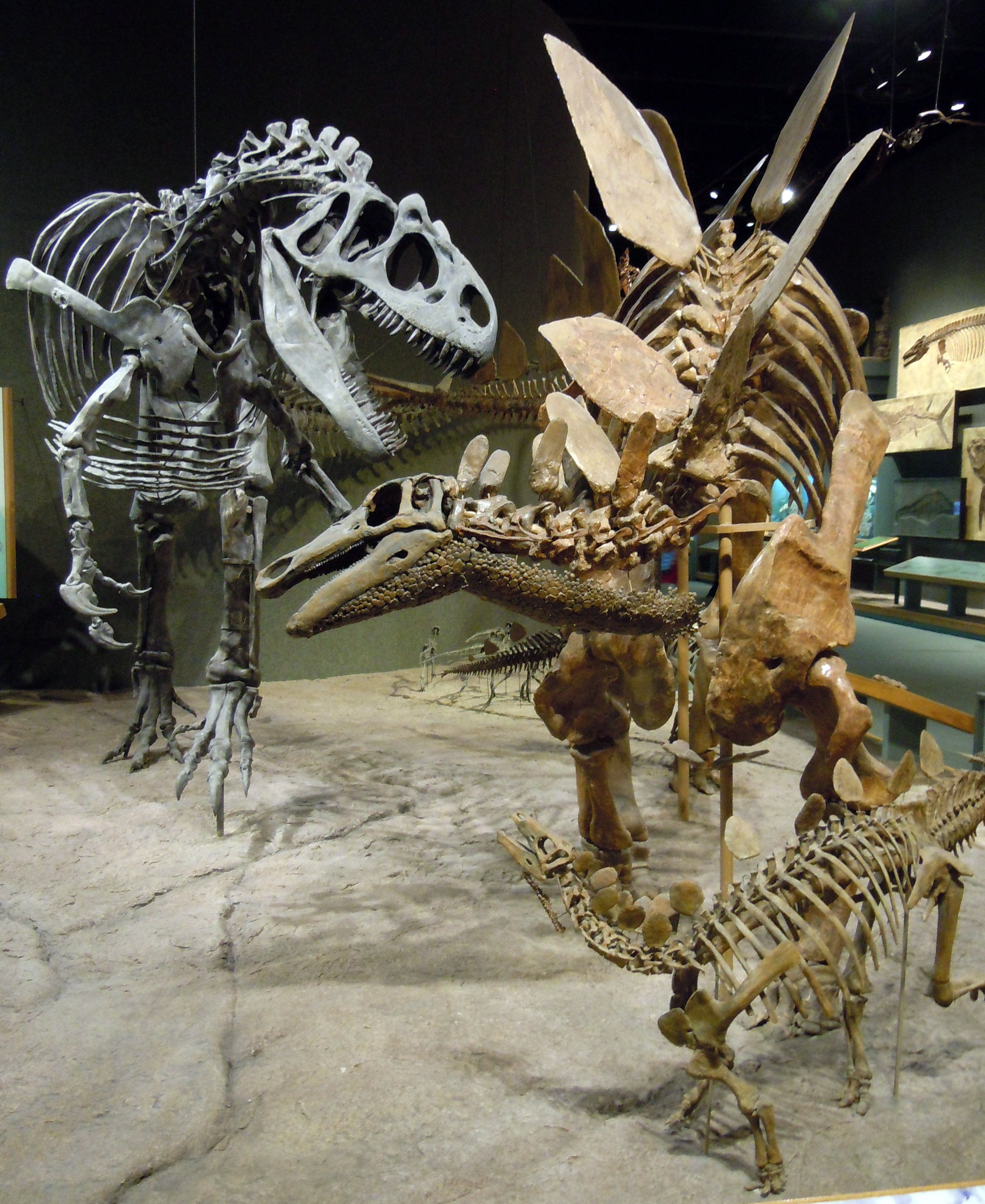 Specimens of Allosaurus fragilis (DMNS 2249) and Stegosaurus stenops (DMNS 1483), Denver Museum of Nature and Science, as re-mounted under the supervision of Ken Carpenter in 1995. The juvenile Stegosaurus are largely reconstructed.